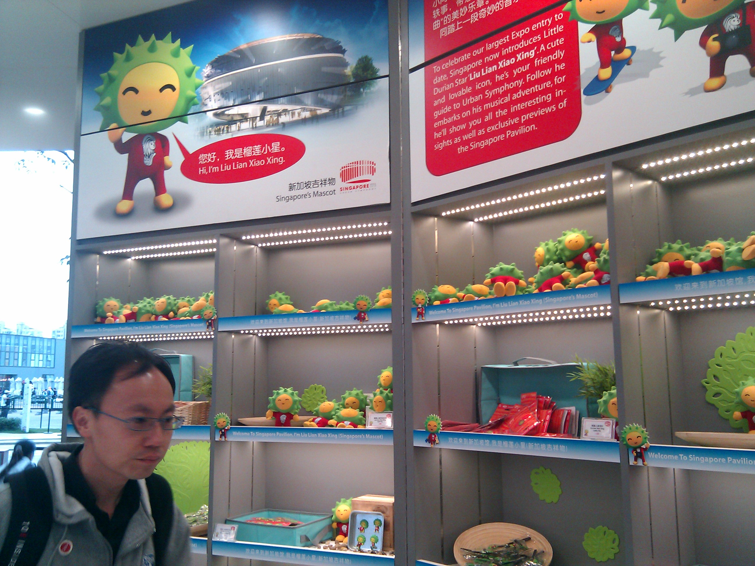 Mascots of Singapore Pavilion of Expo 2010